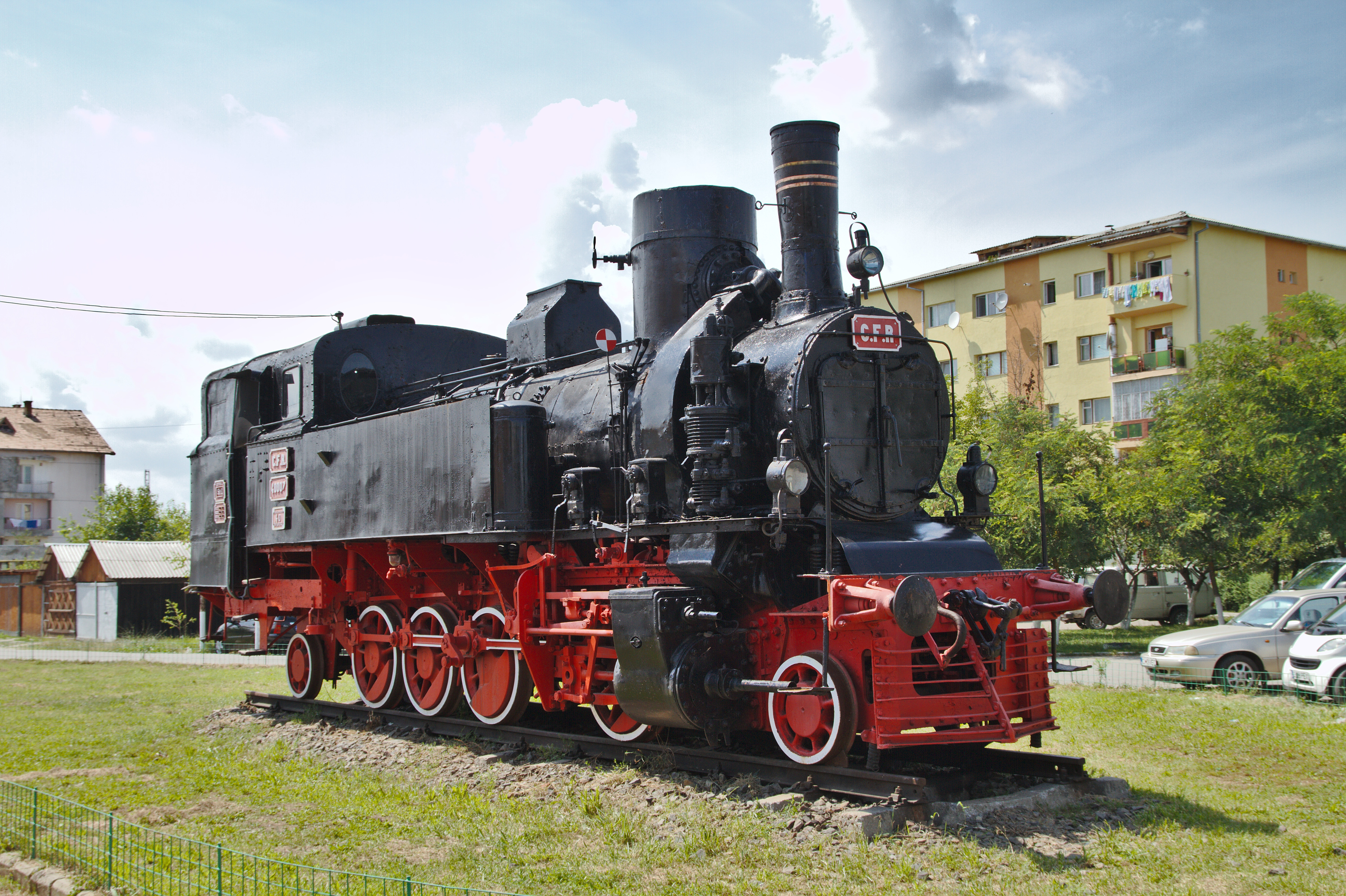 CFR 40.007 on plinth at the entrance to Dej depot.